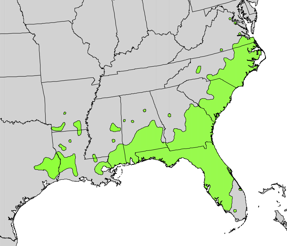 Range map of Fraxinus caroliniana.